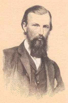 I modified the original image uploaded to Wikipedia to remove a common error with wooden lithographic prints. The original images were reversed during the printing process and I have reversed the image to reflect the original which is held by the National Library in Canberra.